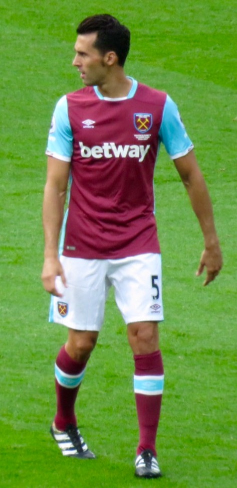 Alvaro Arbeloa with West Ham United, October 2016